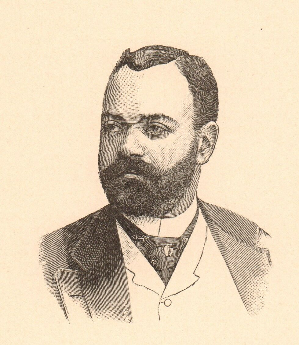 French journalist, lawyer and politician Joseph Reinach (1856-1921)